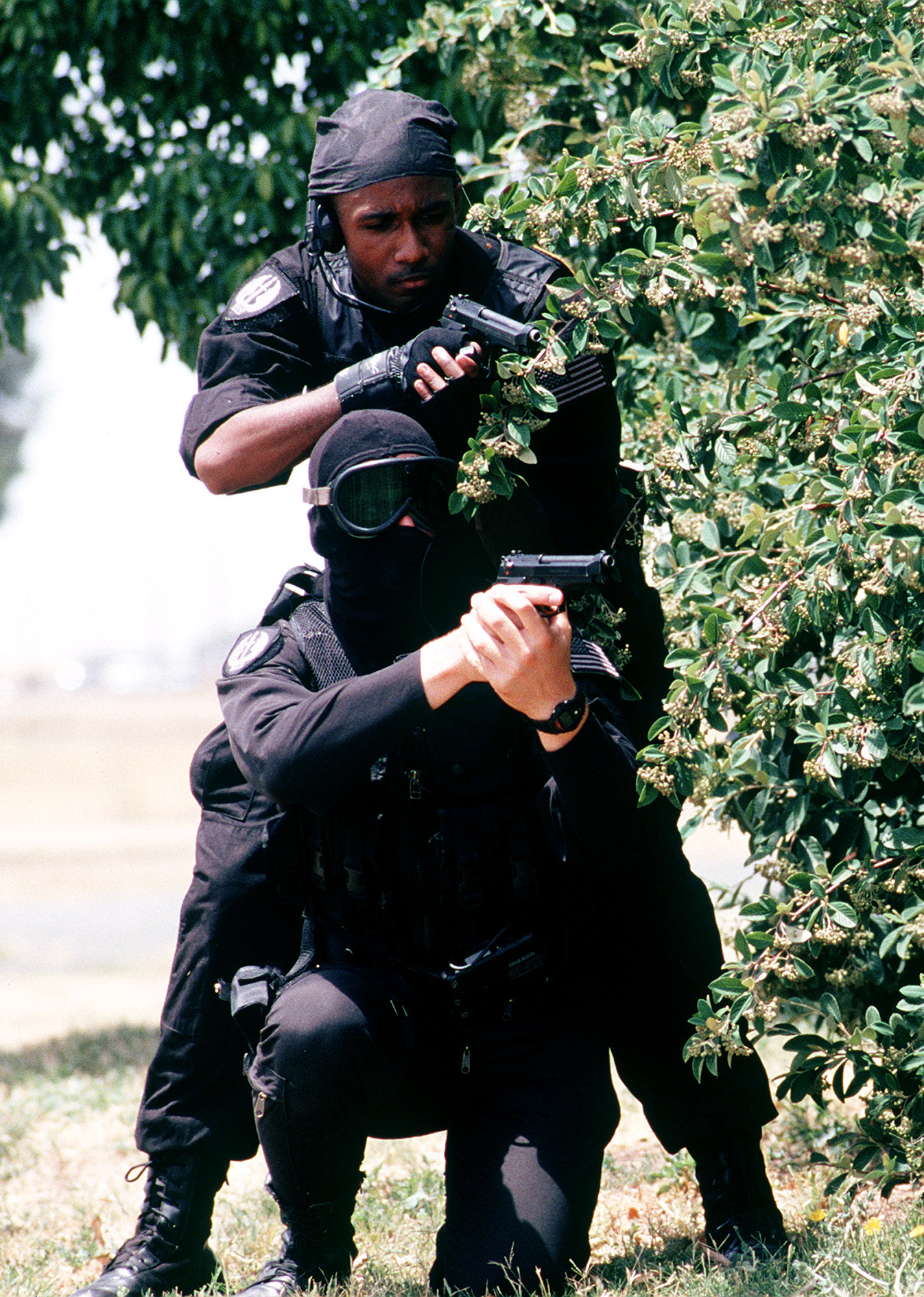 SRA Dave Orth (L) and SRA Clarence Tolliver (R), members of the 60th Security Police Squadron's Base Swat Team, Travis Air Force Base wearing black uniforms stand with M-9 pistols ready behind covering foliage. They are participating in a simulated hostage (Released to Public)